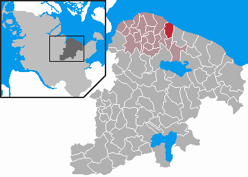 This map shows the area of the Gemeinde (municipality) Stakendorf in the Kreis (district) Plön, Schleswig-Holstein, Germany.